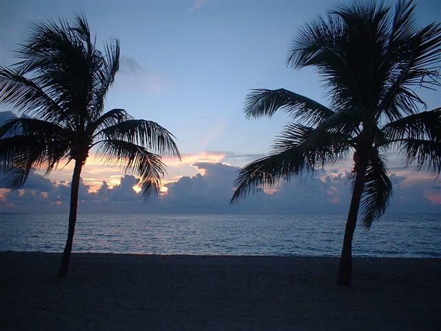 Picture of Fort Lauderdale, Florida beach during sunrise by me, Xanxz.